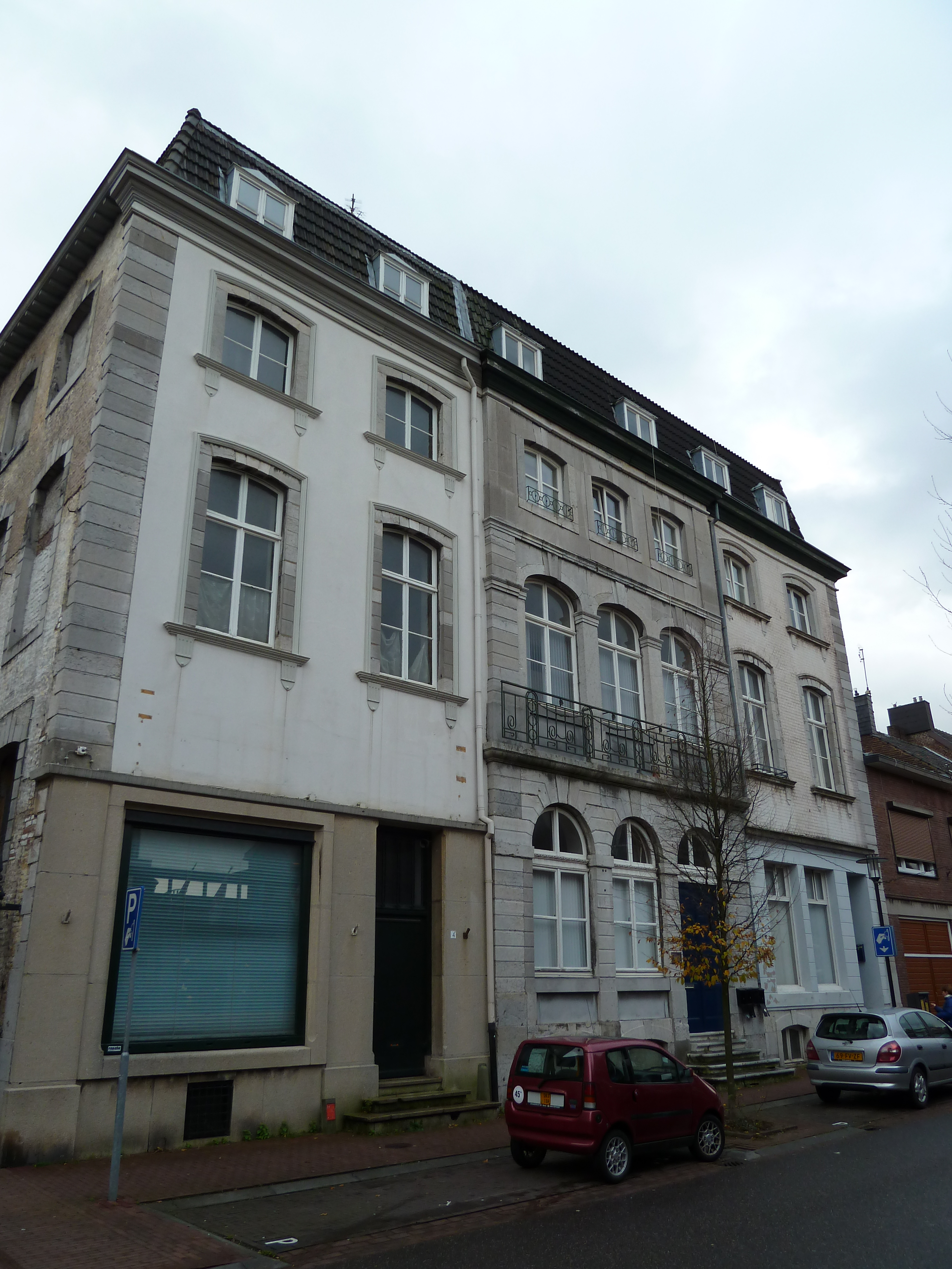 Koperstraat 4, Vaals, Limburg, the Netherlands